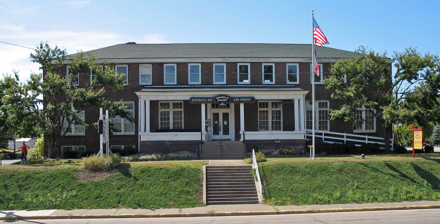 Registered Historic Places in Stark County, Ohio. Brewster Railroad YMCA/Wandle House, 45 S. Wabash Ave., Brewster, Ohio, USA. Railroad dormitory constructed in 1916 by the Wheeling and Lake Erie (WANDLE) Railway. The building now houses the Brewster-Sugarcreek Township Historical Society Museum and The Station Restaurant. Photographed 2008-08-26 from the east side of Wabash Ave. S, north of First St. E.